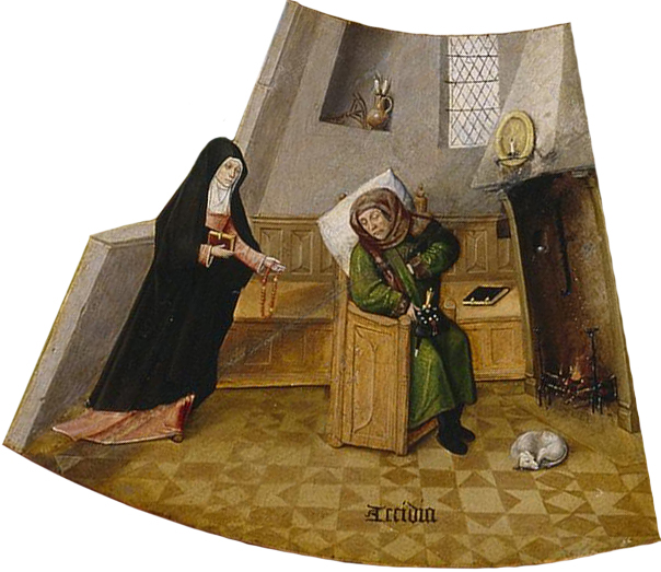 Table of the Mortal Sins [detail: Accidia (sloth)]